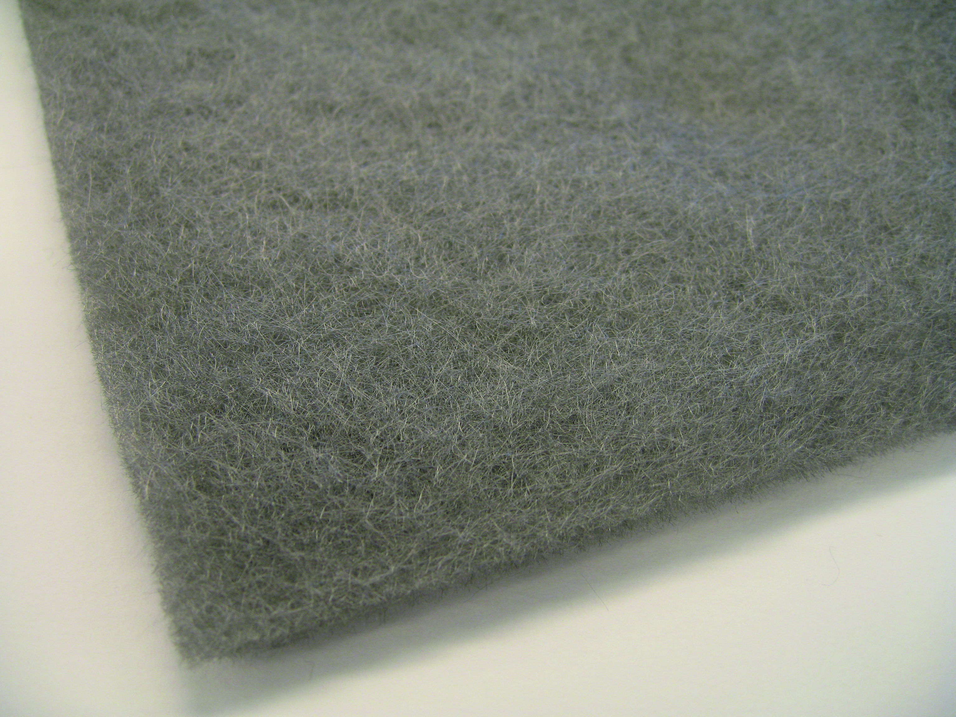 Web